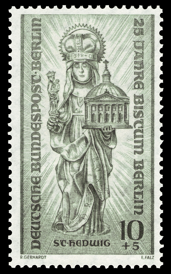 25 years of diocese Berlin, stamp with additional fee for restoring the destroyed churches Graphics by Gerhardt Ausgabepreis: 10+5 Pfennig First Day of Issue / Erstausgabetag: 26. November 1955 Michel-Katalog-Nr: 133 (Berlin)